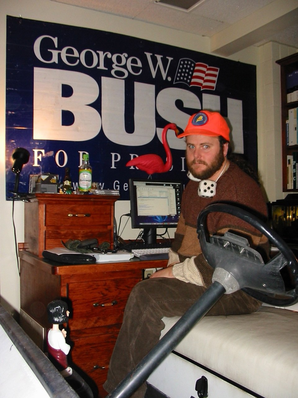 Office of an avowed liberal decorated with Republican and "redneck" items: Bush for president poster, flamingo lawn ornament, hunting cap, furry dice, golf cart, plastic Jesus figure. Red eyes removed in this version of the image by User:Ranveig